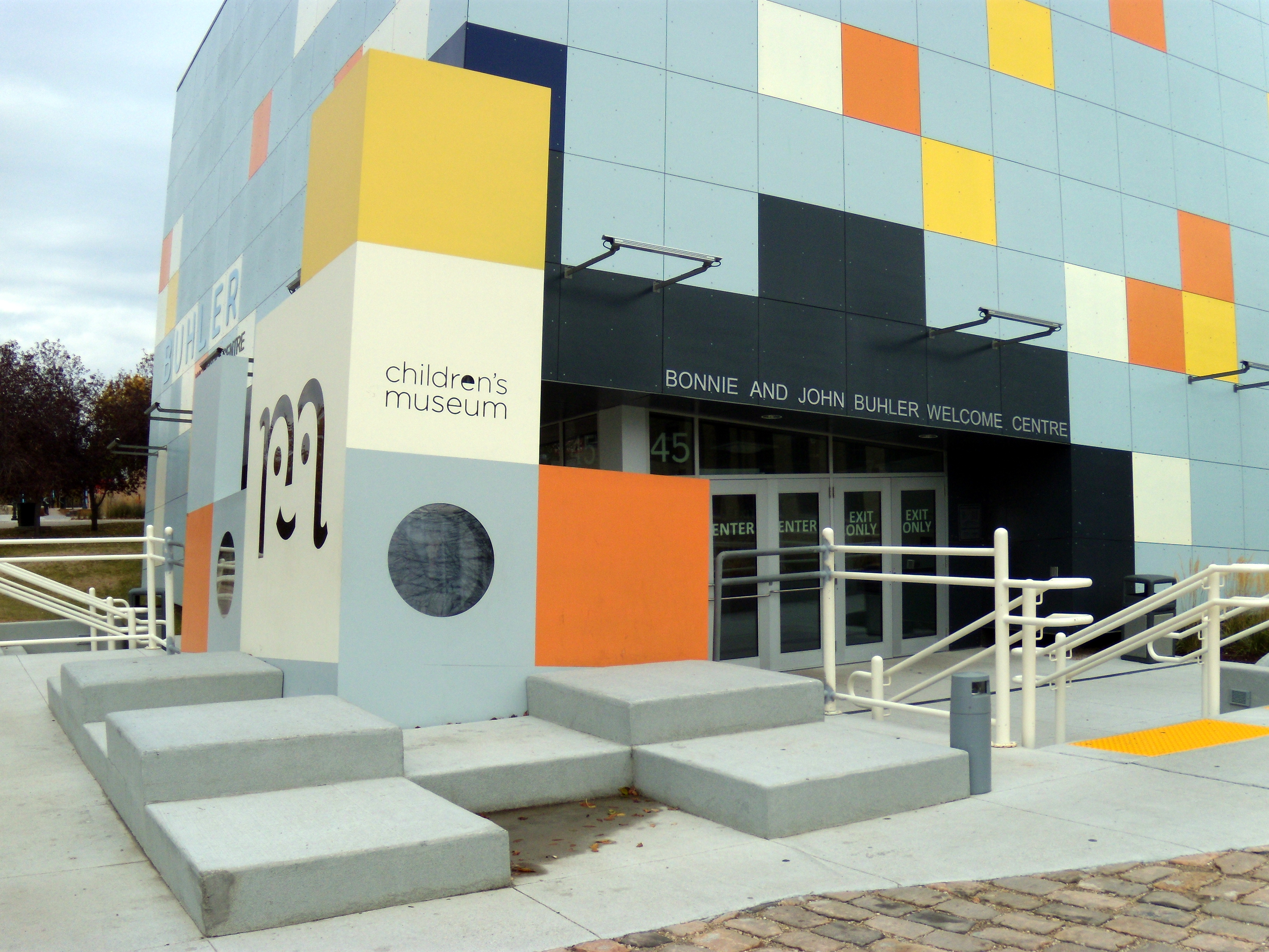 Manitoba Children's Museum at the Forks in Winnipeg, Manitoba